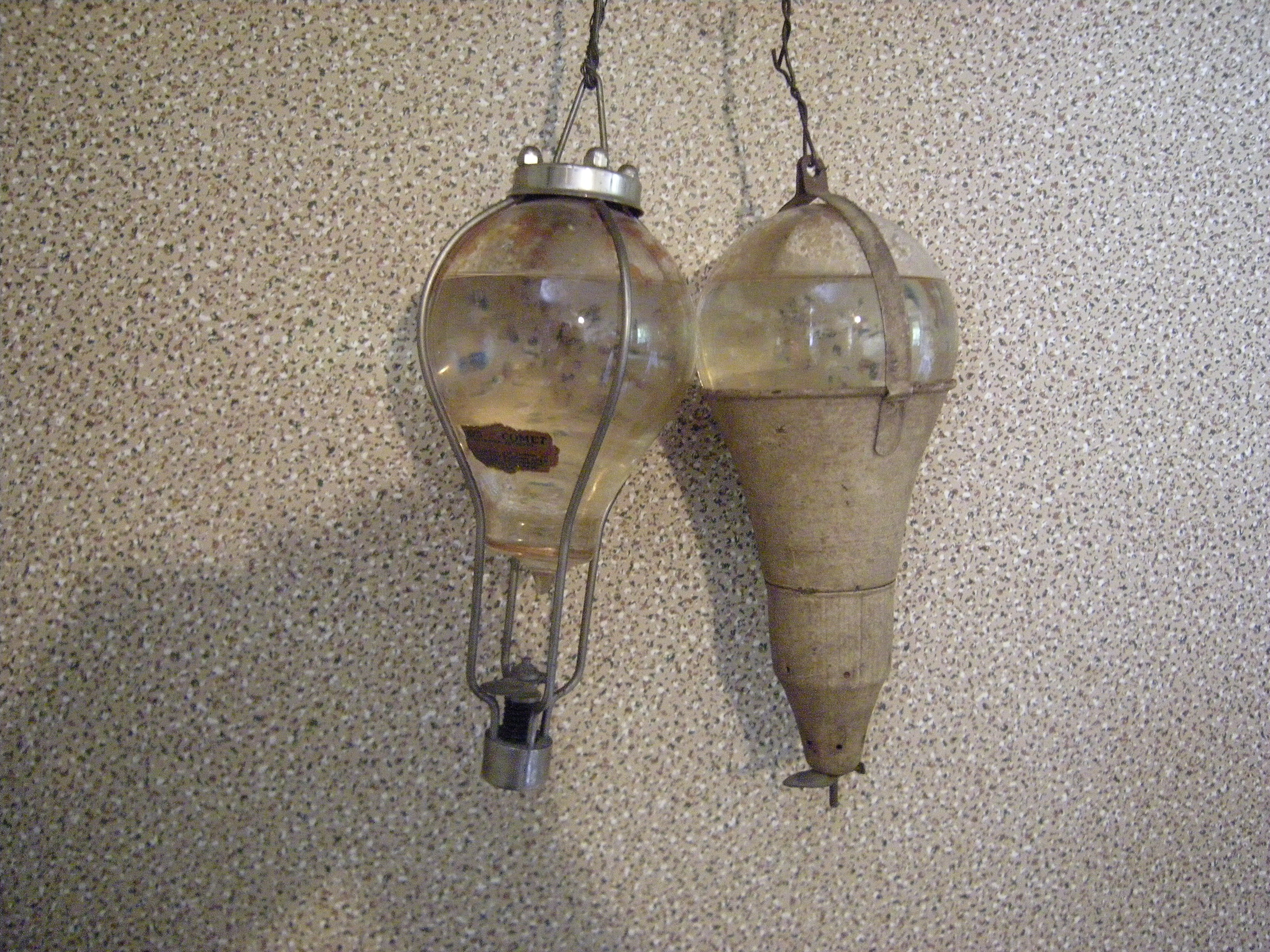 Comet-style / "grenade" style carbon tetrachloride fire extinguishers, Blackman House Museum, Snohomish, Washington, USA.